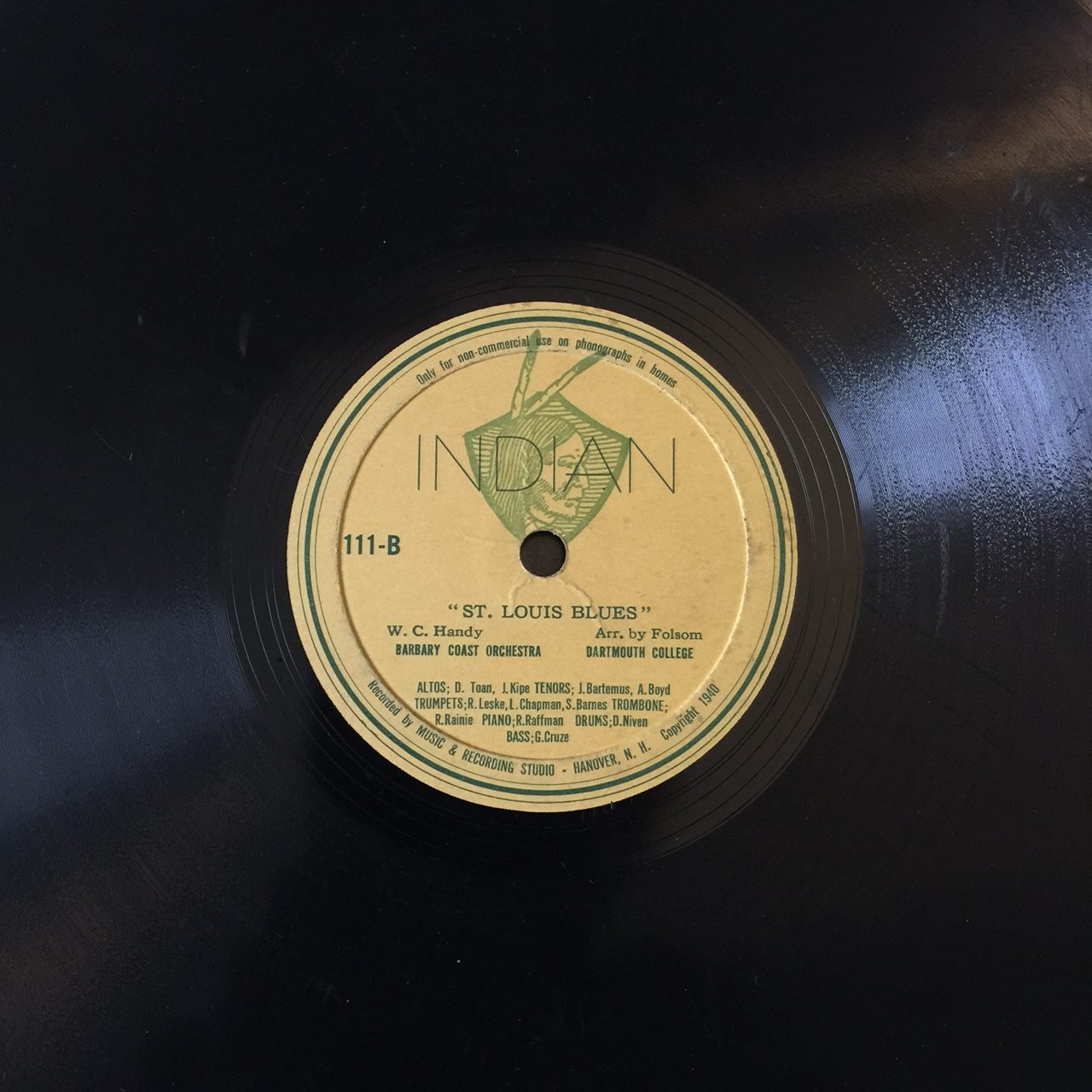 78-RPM record by the Barbary Coast Orchestra with Relly Raffman on piano